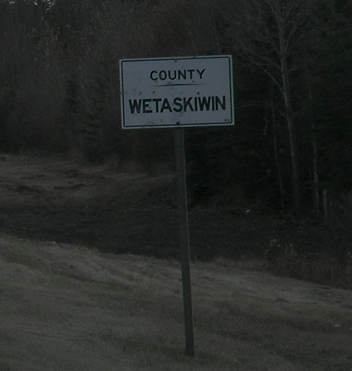 Welcome sign in Wetaskiwin County, Alberta, Canada